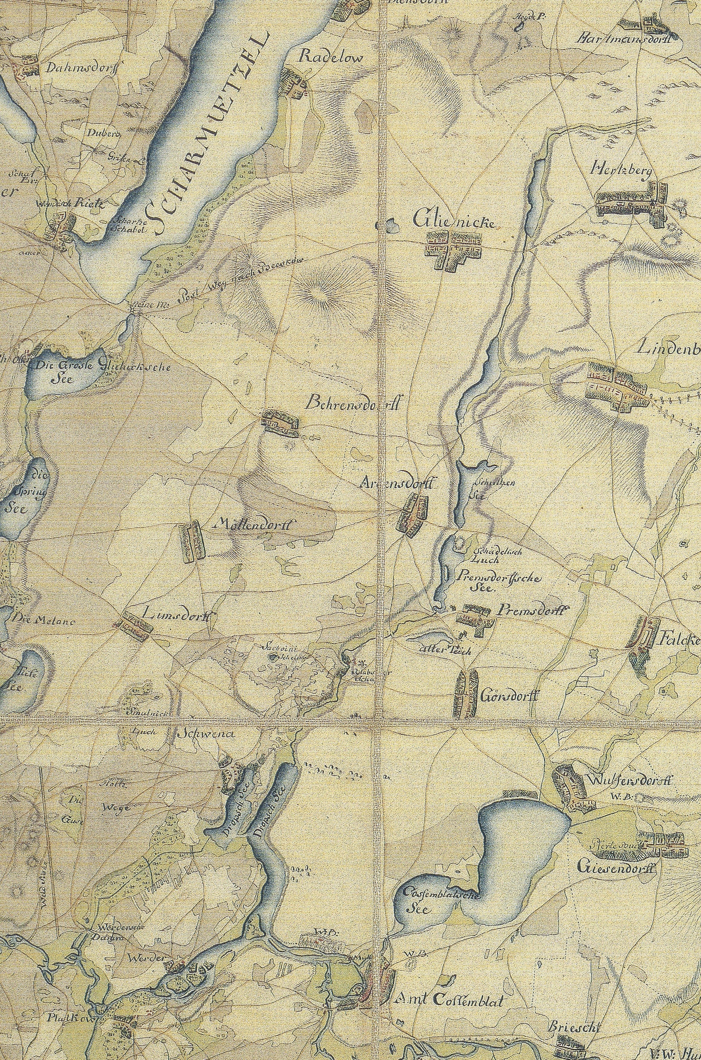 Extract of a Schmettau map from 1767/1787 with a part of the today’s District Oder-Spree, Brandenburg, Germany. The map shows among others a part of the Scharmützelsee, the whole course of the Blabbergraben (stream) and the five lakes flown by the Blabbegraben as well as the estuary of the stream to the river Spree. Today, the first part of the Blabbergraben towards the Herzberger lake exists still in a rudimentary form.